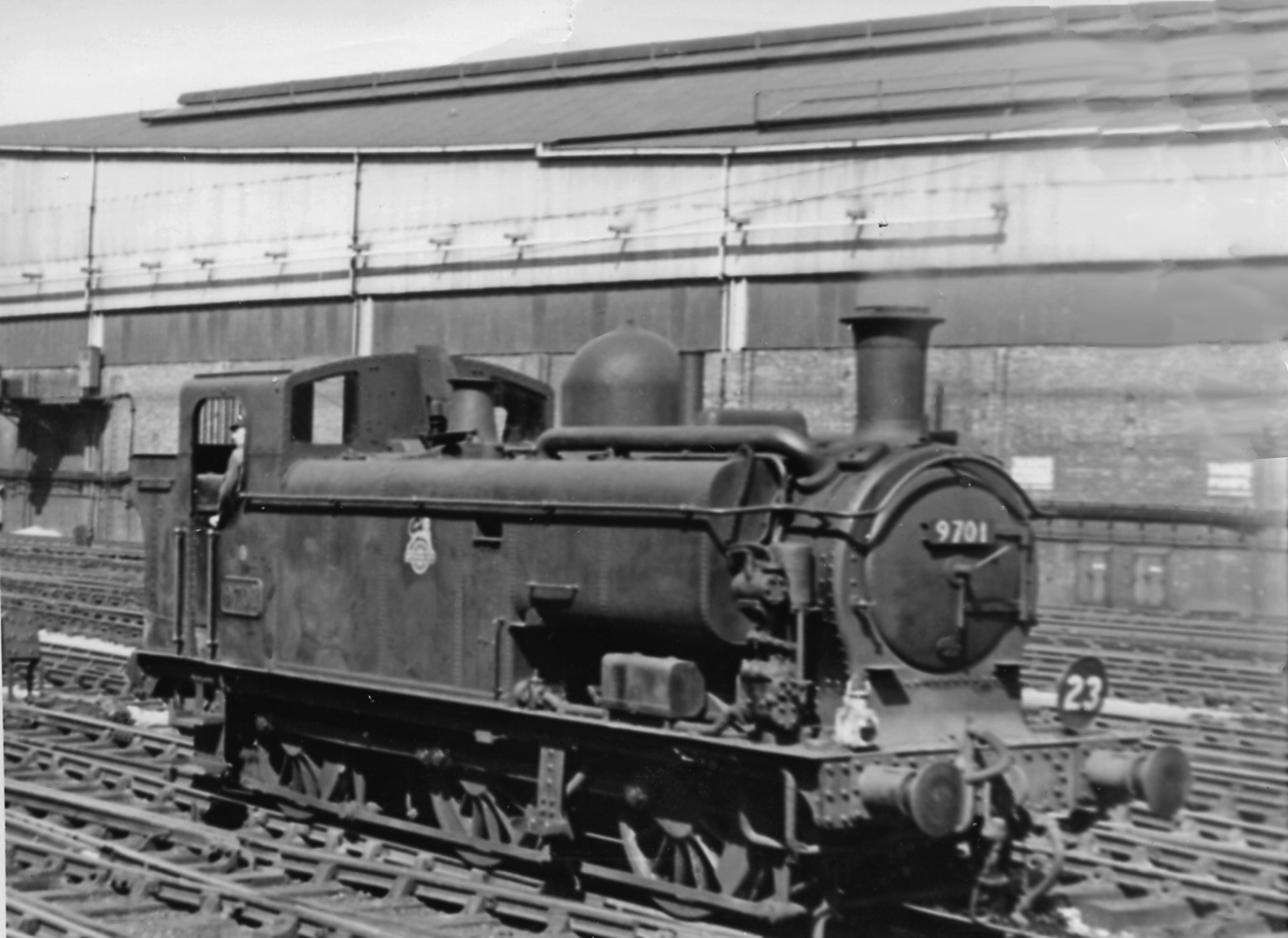 Ex-GWR condenser-fitted 0-6-0 Pannier tank at Paddington. Supplementing the converted No. 8700 (renumbered No. 9700), ten of the Collett '8750' class 0-6-0PTs were built new in 1933 for the traffic on the Metropolitan Underground route from Paddington to Smithfield, with condensing apparatus and other modifications. No. 9701 (built 9/33, withdrawn 1/61) is seen here off the end the Arrival platforms at Paddington, with the great Goods Station behind, beyond the electrified Hammersmith & City lines.